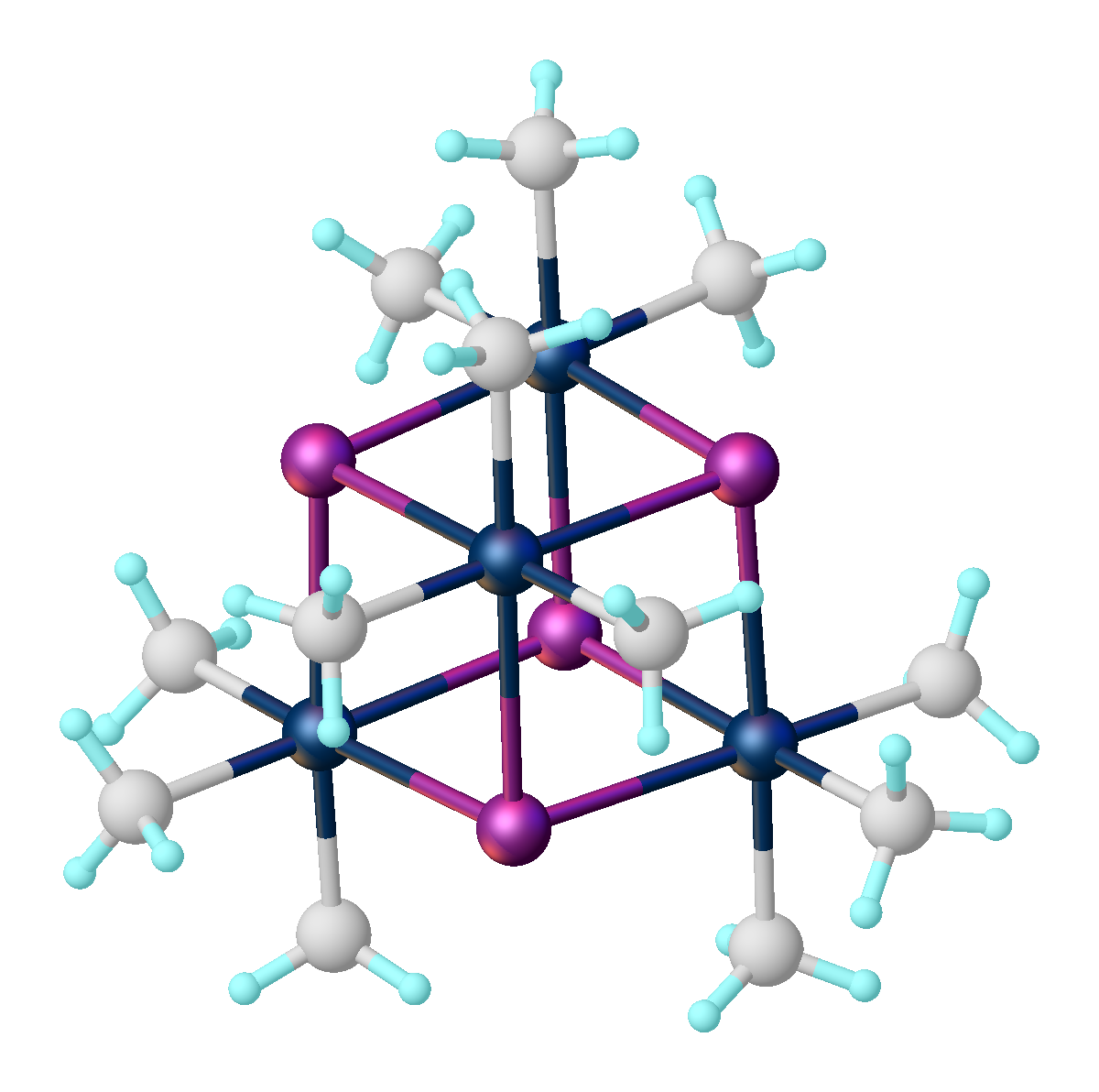 Structure of [Me3PtI]4